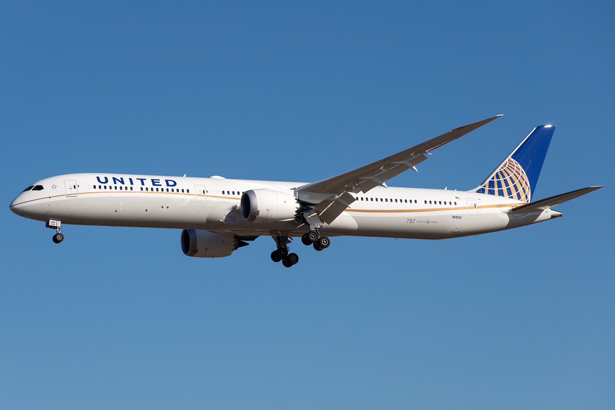 United Airlines Boeing 787-10 on finals at Beijing Capital Airport